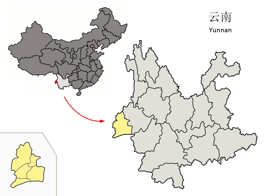 Location of Dehong Prefecture (yellow) within Yunnan province of China Map drawn in september 2007 using various sources, mainly : Yunnan province administrative regions GIS data: 1:1M, County level, 1990 Yunnan Counties map from